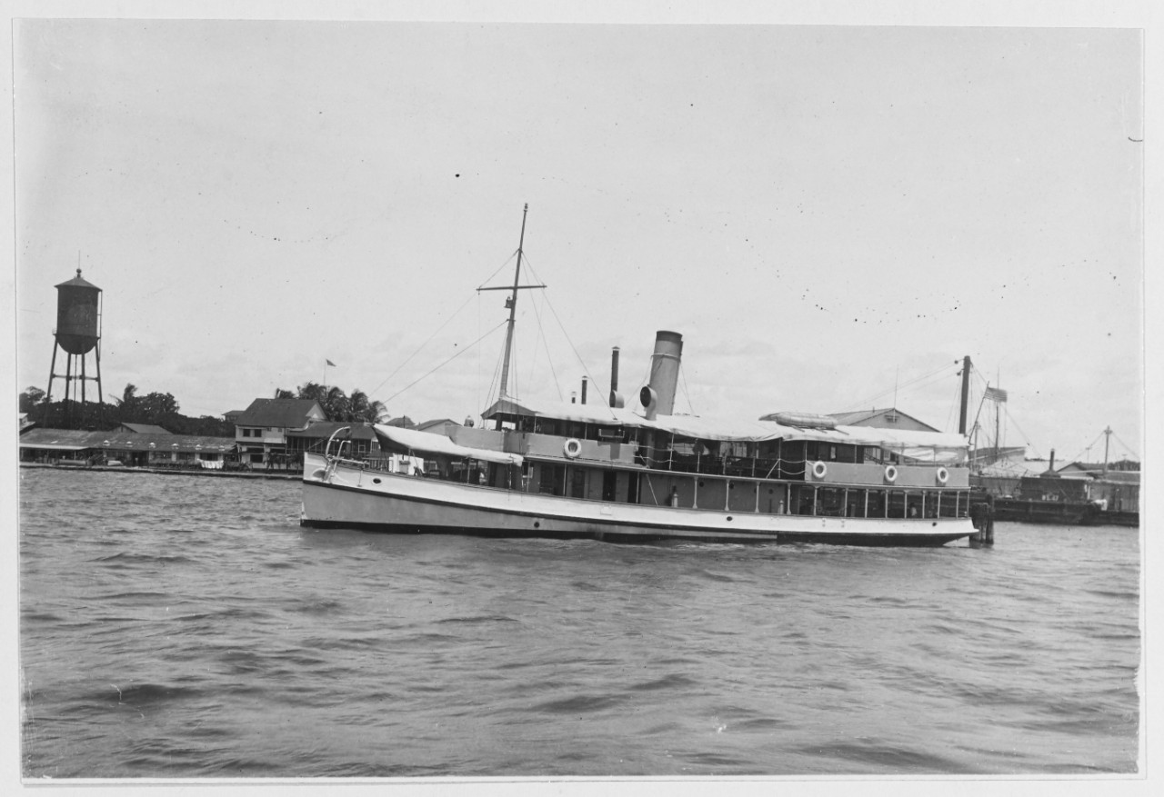 (YFB-12) Photographed off the Cavite Navy Yard, Philippines, during the 1920s or 1930s. U.S. Naval History and Heritage Command Photograph. NH 41609